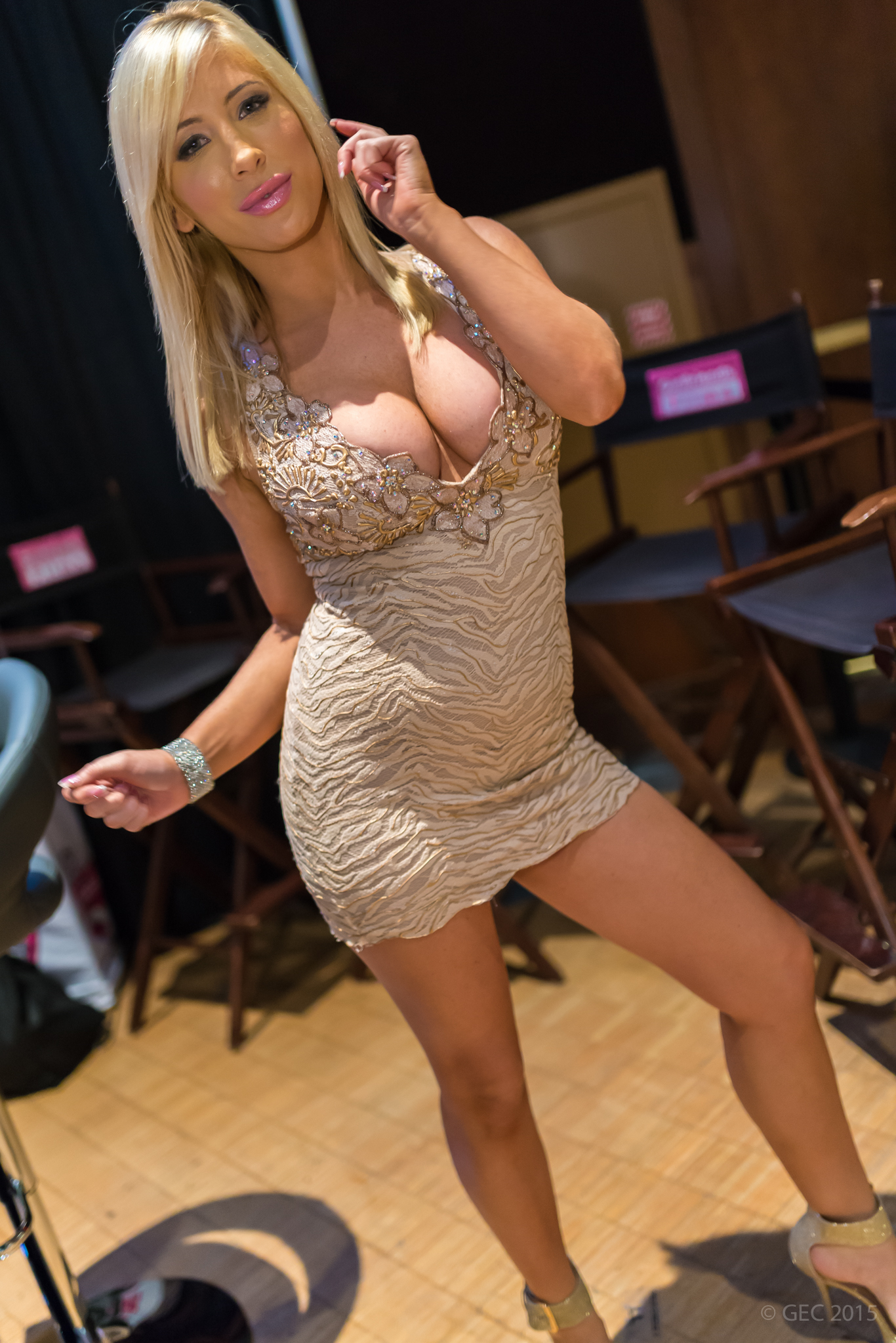 Tasha Reign at the AVN Adult Entertainment Expo in Las Vegas on January 21, 2015